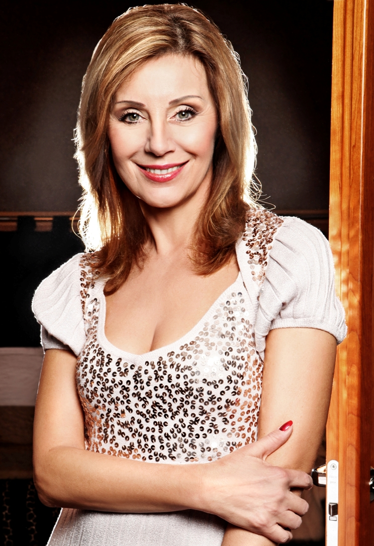 television hostSlovenčina: televízna moderátorka